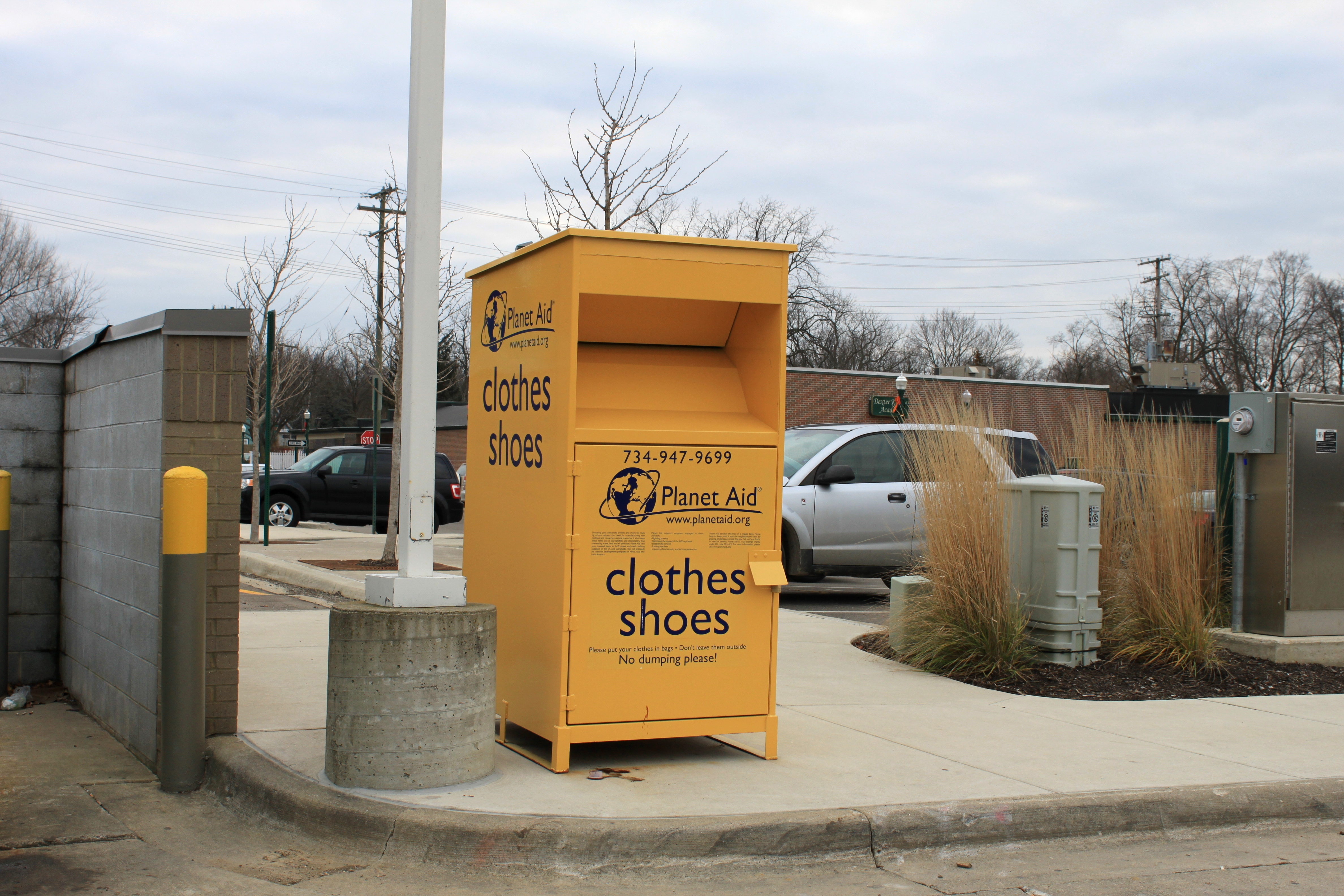 Planet Aid collection box, B & R Oil Co. BP service station, 8135 Main Street, Dexter, Michigan.